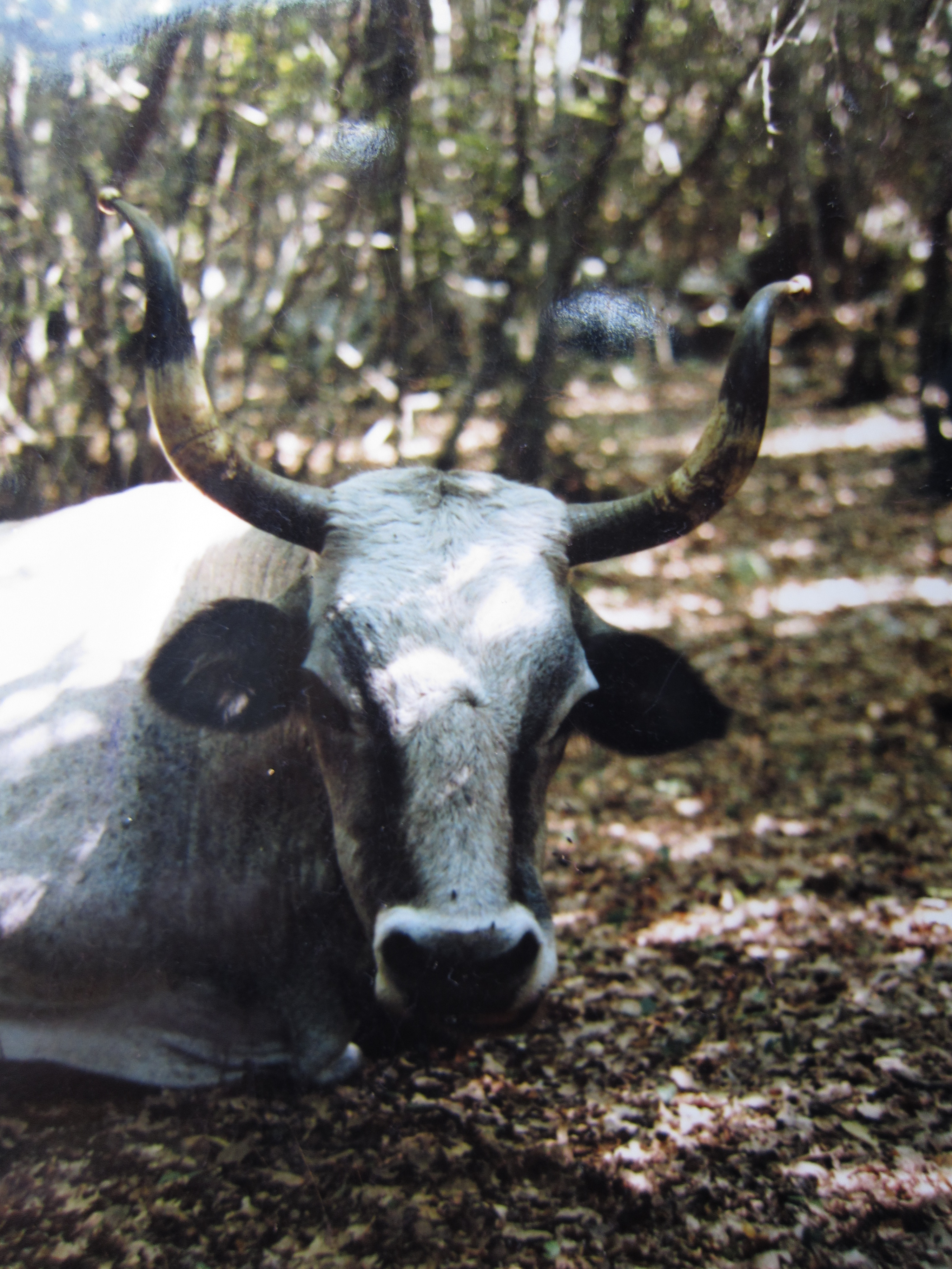 Boškarin cattle - Istria